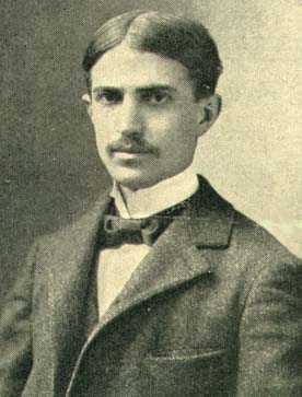 Formal portrait of Stephen Crane, taken in Washington D.C., March 1896